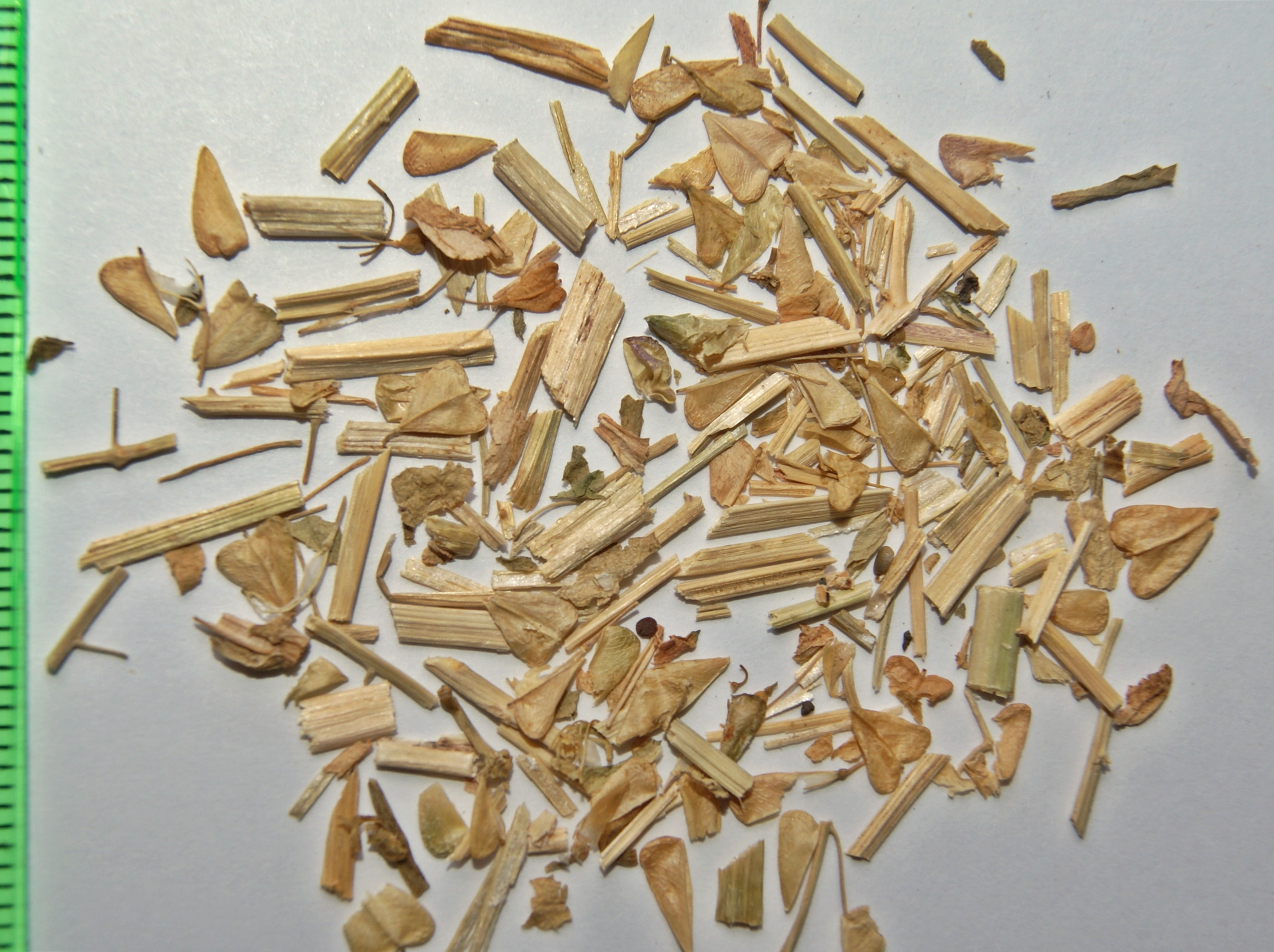 Capsella bursa-pastoris